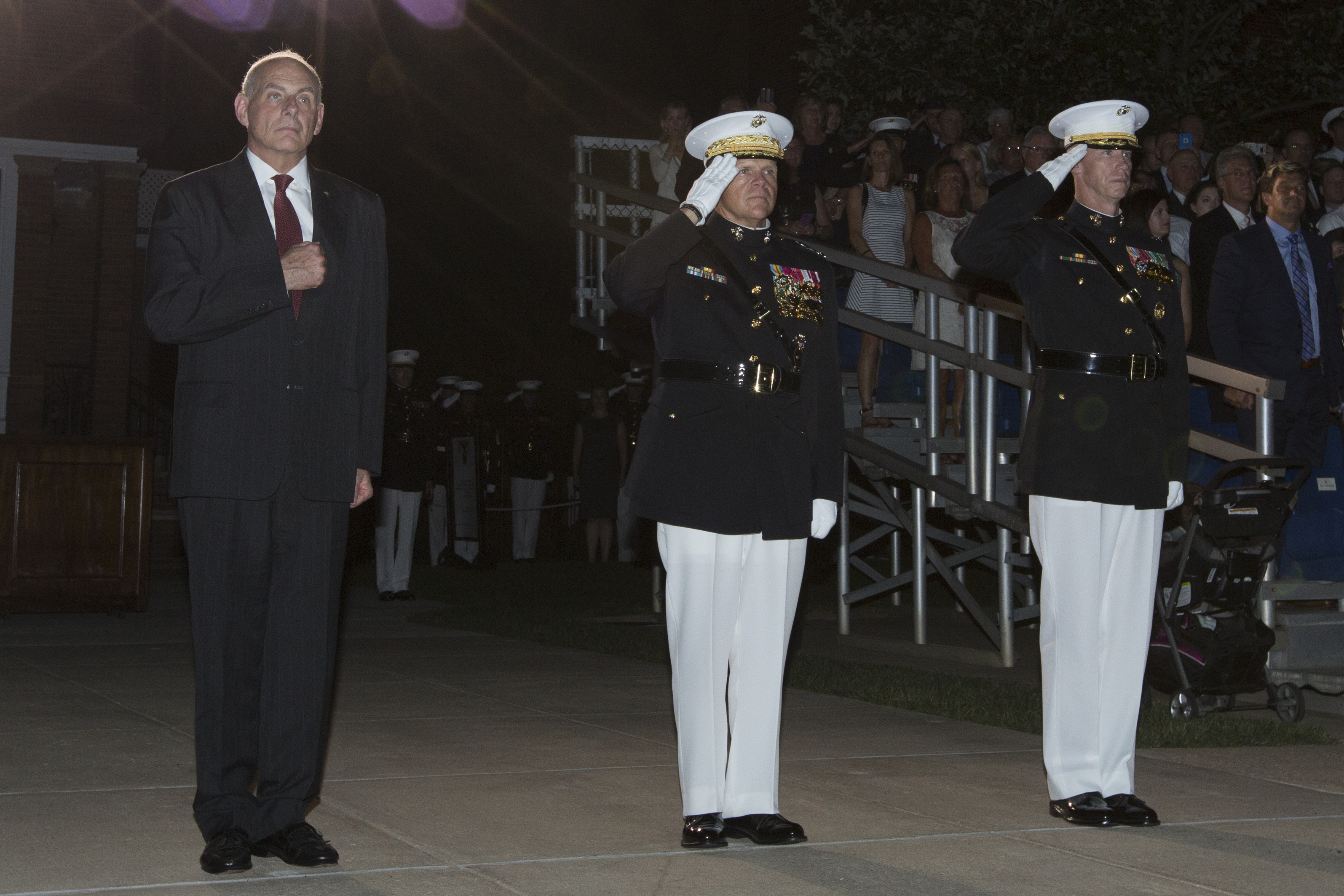 From left, retired Gen. John F. Kelly, Commandant of the Marine Corps Gen. Robert B. Neller, and Col. Tyler J. Zagurski, commanding officer of Marine Barracks Washington, salute during an evening parade at Marine Barracks Washington, Washington, D.C., July 22, 2016. Neller hosted the parade and Kelly was the guest of honor. (U.S. Marine Corps photo by Cpl. Samantha K. Draughon/ Released)